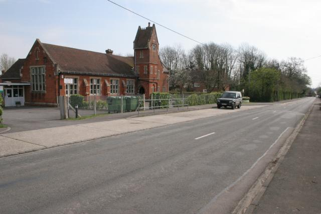 Burghfield. Looking towards Burghfield Village with Burghfield St Mary's CofE Primary School on the left.